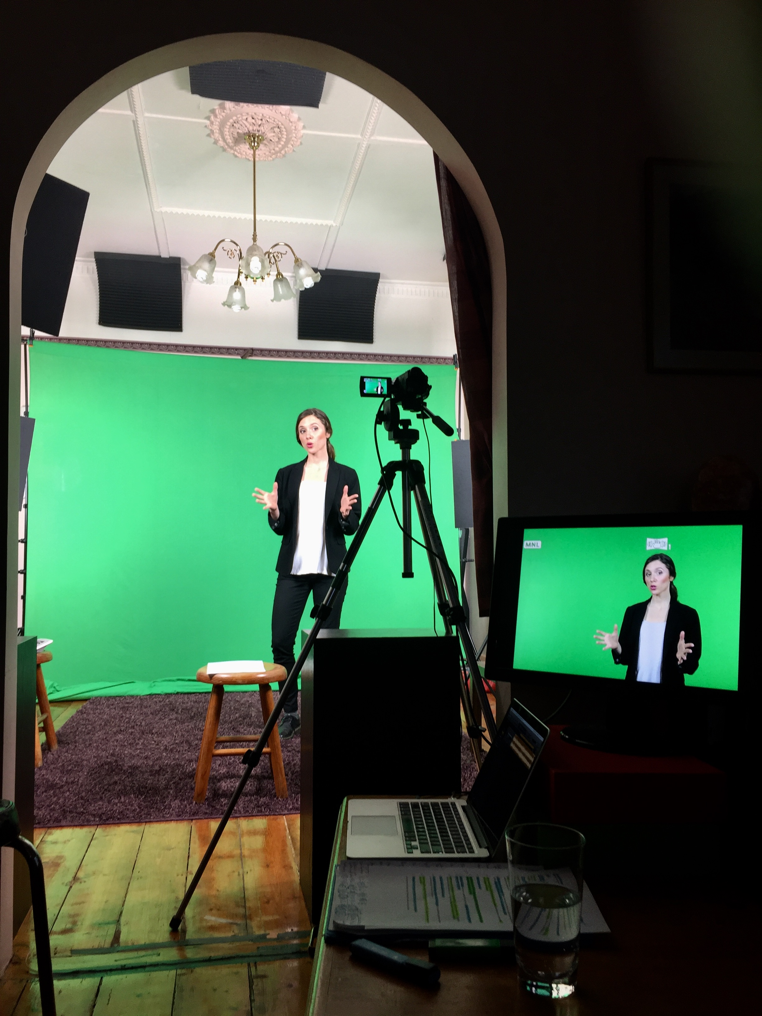 Filming an Honest Government Ad with Ellen on the set of the Juice Media which is basically Giordano and Lucy's living room